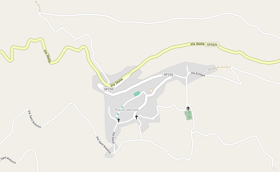 This map may be incomplete, and may contain errors. Don't rely solely on it for navigation.